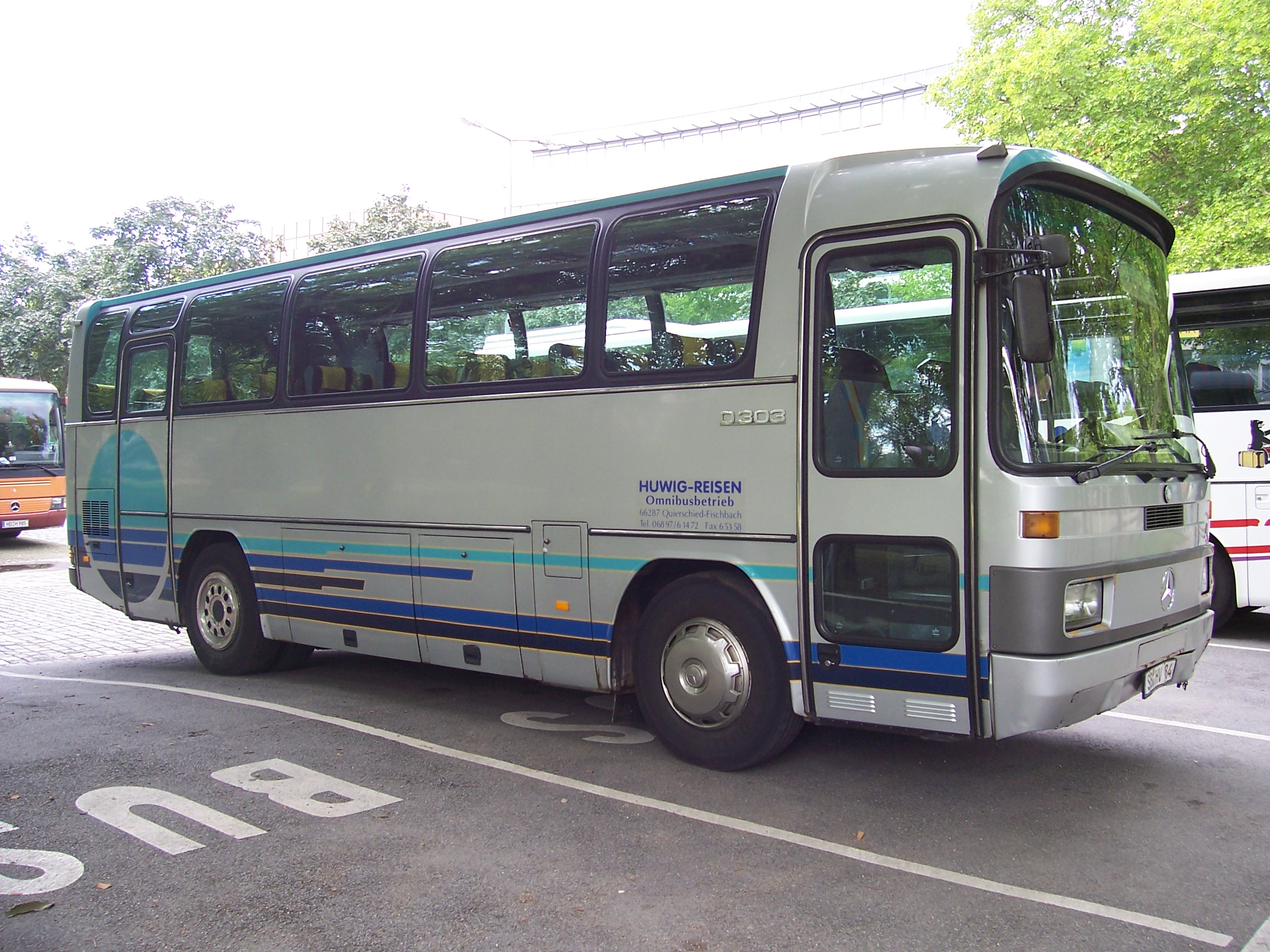 Mercedes-Benz O 303 10R bus (reg. SB-HV 84) in Mannheim, Germany. Huwig-Reisen Omnibusbetrieb operator.